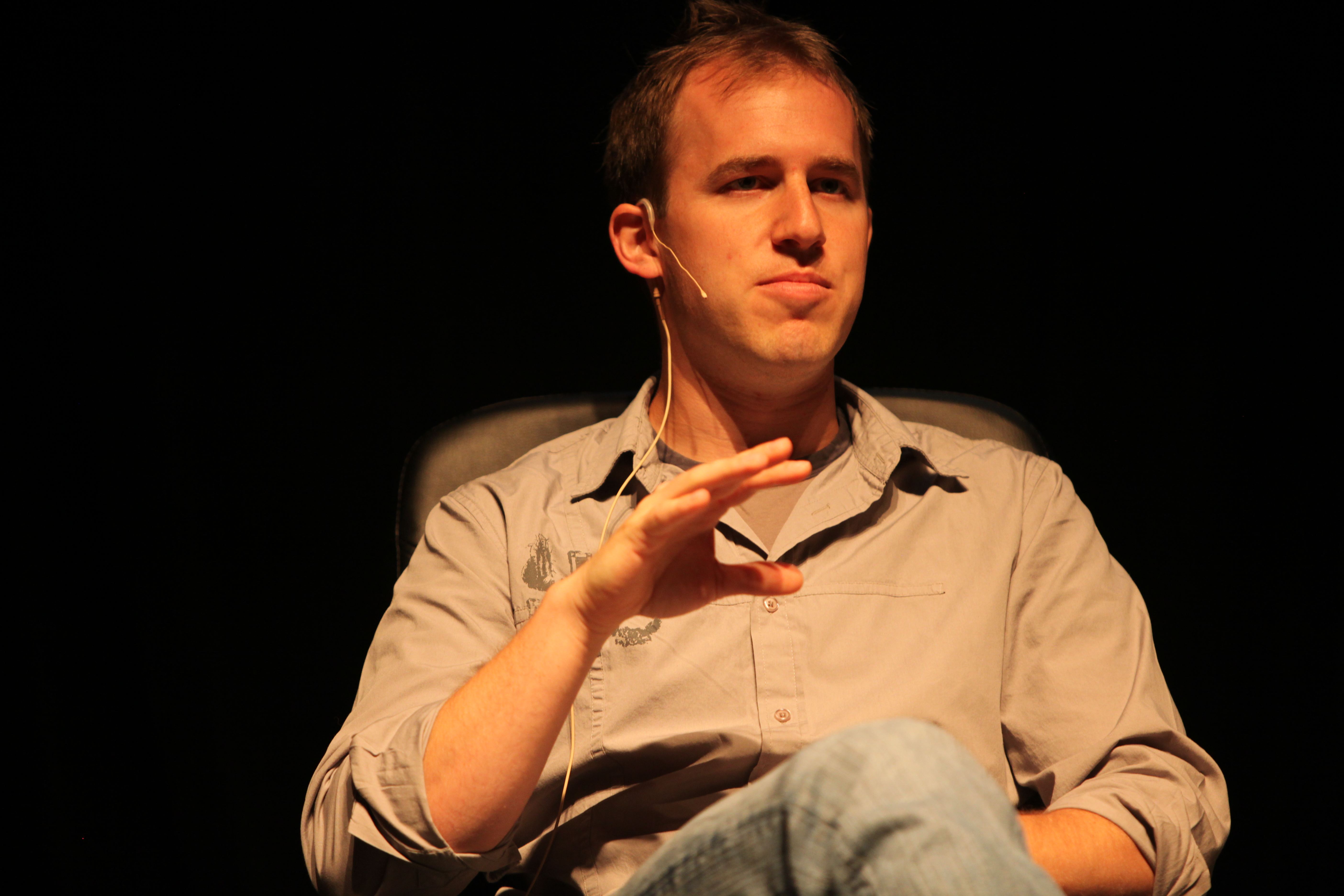 Bret Taylor at TechCrunch Real-Time Stream Crunchup, in july 2009.